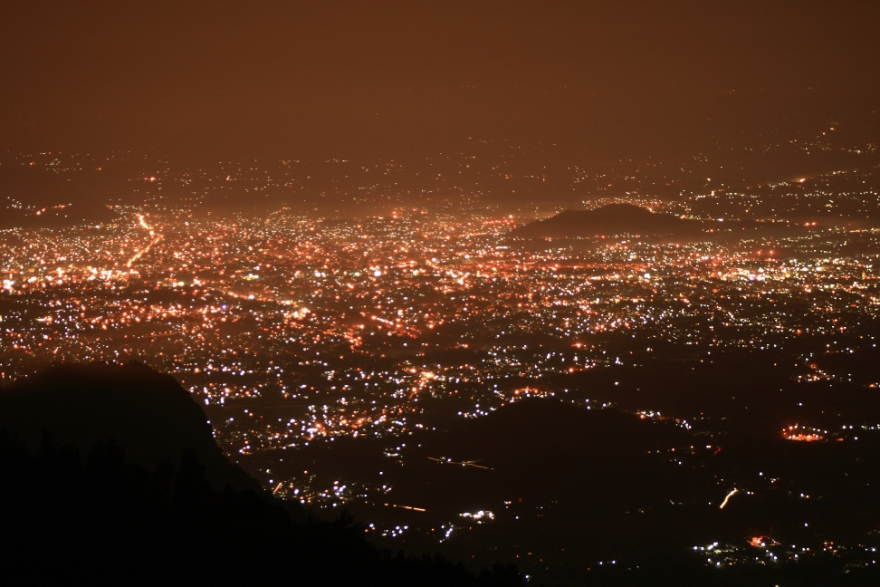 Late night view of Salem city from Yercaud